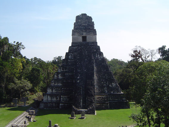 Photo- Mariel Castro Temple 1 in grand plaza Tikal- Taken Late Early Feb 2006